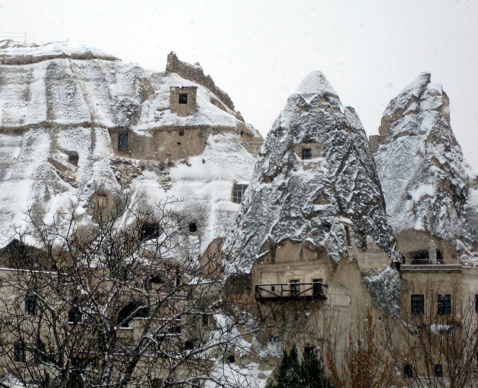 Streets of Goreme city